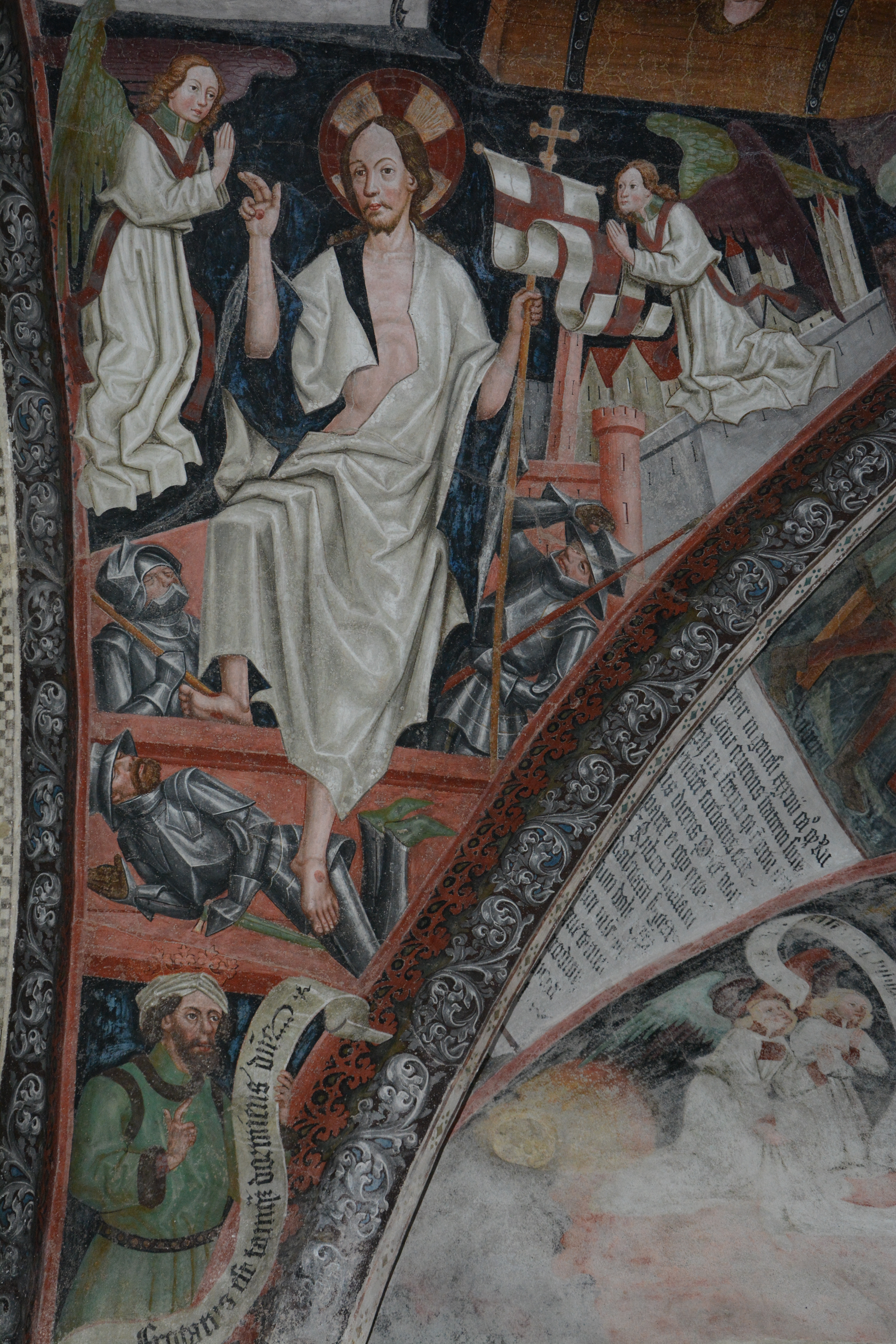 Resurrection of Christ. Fresco in the cloister of Brixen Cathedral by Leonhard von Brixen around 1472.